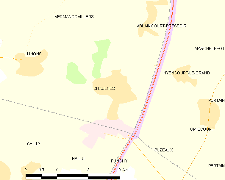 Map of French municipality Chaulnes